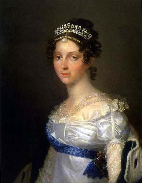 Tsarin of Russia, Elizabeth Alexeievna. Pavlovsk